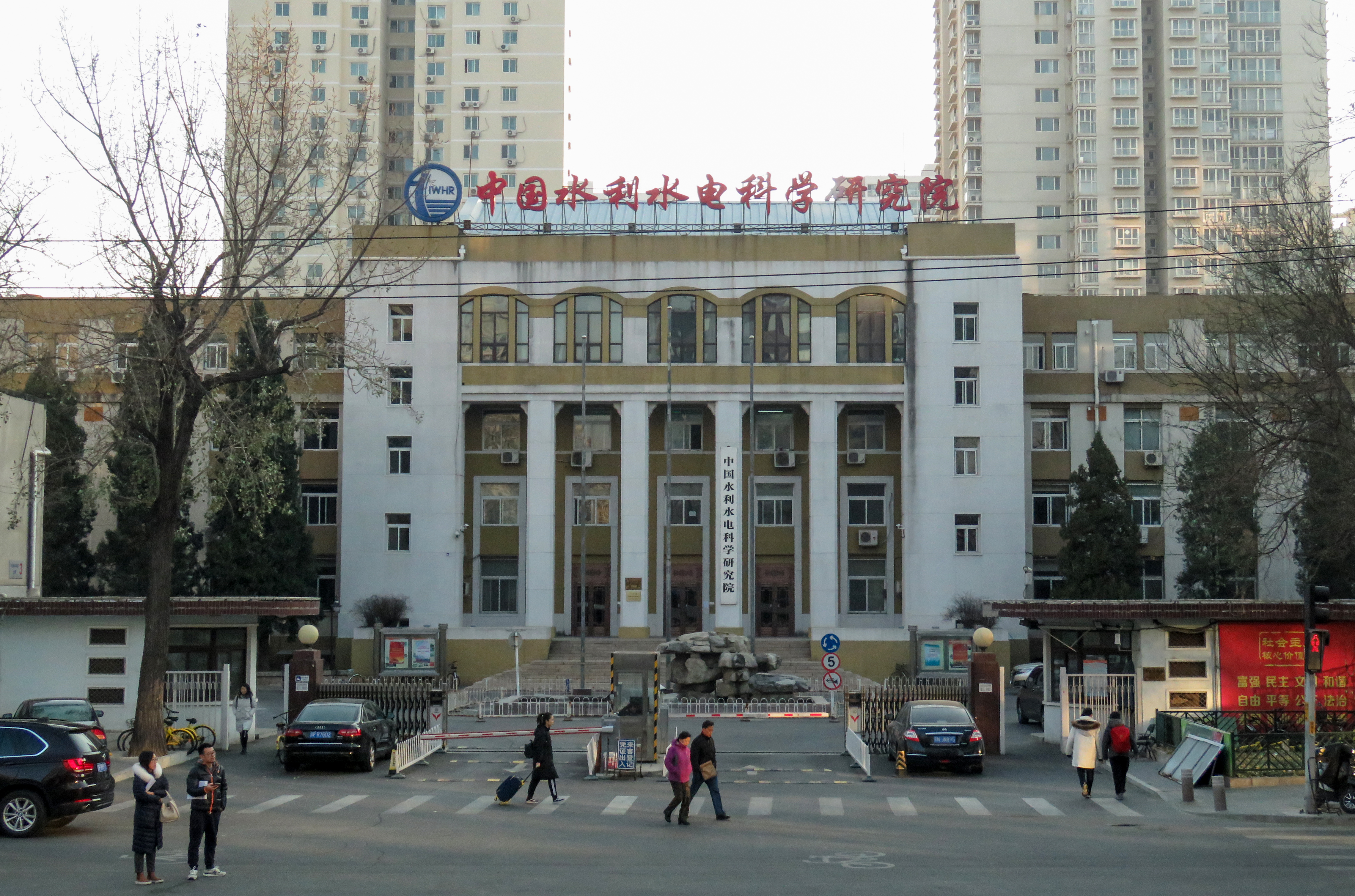 20 Chegongzhuang West Rd (车公庄西路20号) taken from a 653. Another section is at A1 Fuxing Rd (复兴路甲1号).